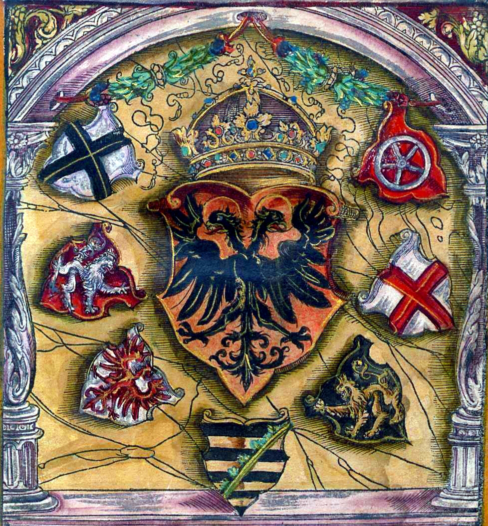 Imperial coat of arms (Holy Roman Empire), with the seven coats of arms of the prince-electors: Cologne, Mainz, Trier, Bohemia, Palatinate, Brandenburg, Saxony. Title page of a 1545 armorial printed in Frankfurt.